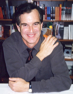 Garry Trudeau. I took this photo on November 9, 1999 at Tufts University during a dual signing session for Scotty McLennan's book Finding Your Religion